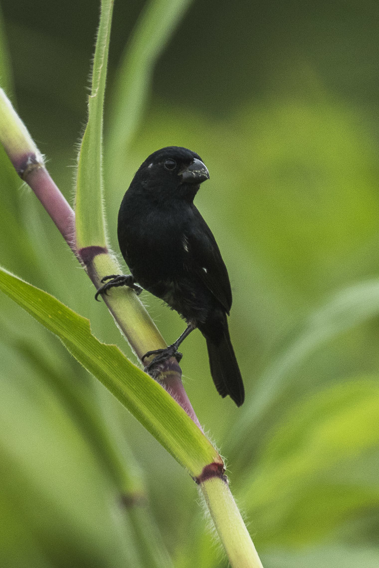 Thick-billed Seed-Finch - Sarapiqui - Costa Rica_MG_0887